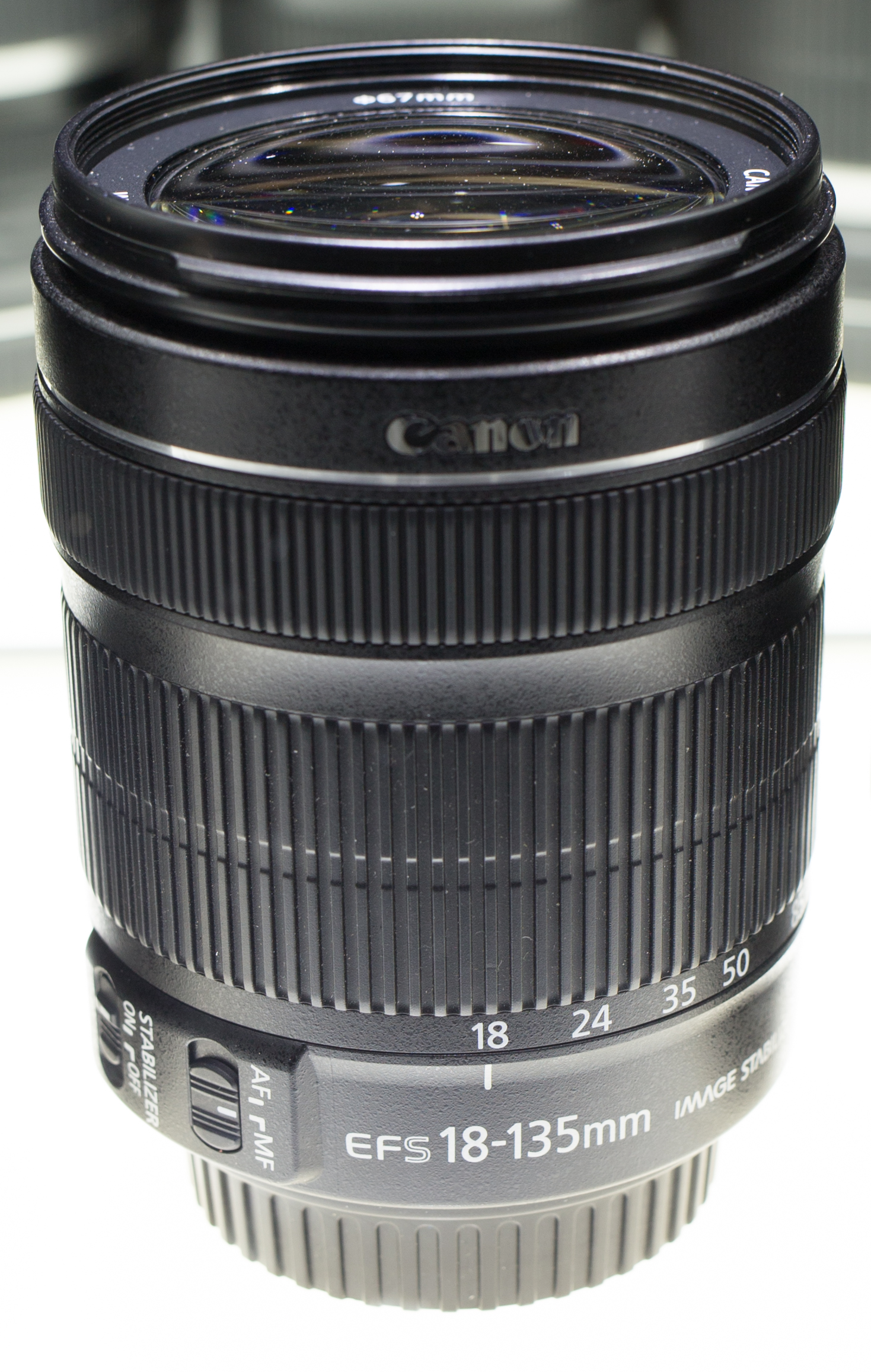 Image of the Canon EF-S 18–135mm f/3.5–5.6 IS STM lens